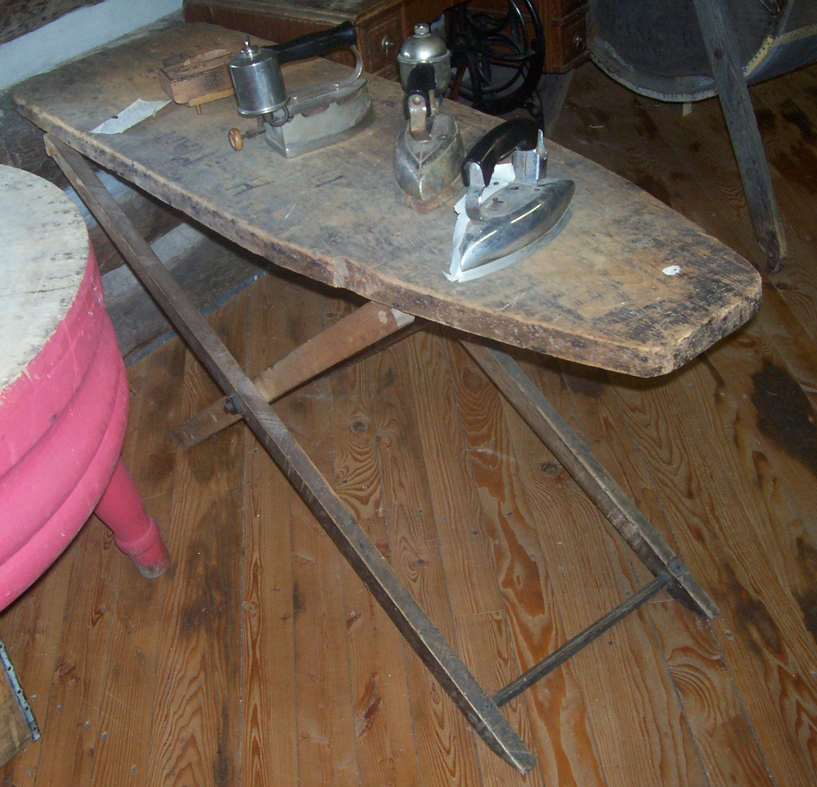 A historic wooden ironing board. Picture taken at the Wabeno Logging Museum in Wabeno, Wisconsin.